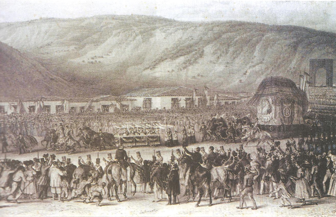 Grabado del traslado de los restos de Simón Bolívar desde Santa Marta, Colombia, hasta Caracas.